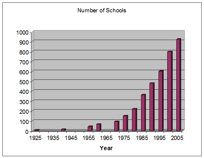 Self-created Sources Uhrmacher P B (the source for most of the historical data) Waldorf schools marching quietly unheard, Dissertation, Adelaide University, 1999 "Uncommon Schooling: A Historical Look at Rudolf Steiner, Anthroposophy, and Waldorf Education", Curriculum Inquiry, Vol. 25, No. 4 (Winter, 1995), pp. 381-406 Heiner Ullrich: "Rudolf Steiner", Prospects: the quarterly review of comparative education, UNESCO v. XXIV no. 3/4 1994, pp. 555-572 "ReformpÃ¤dogogische Schulkultur mit weltanschaulicher PrÃ¤gung", in Waldorf-pÃ¤dogogik, ISBN 3-8340-0042-6, p. 142 Plymouth University, Canterbury University (Used for 2005 data)